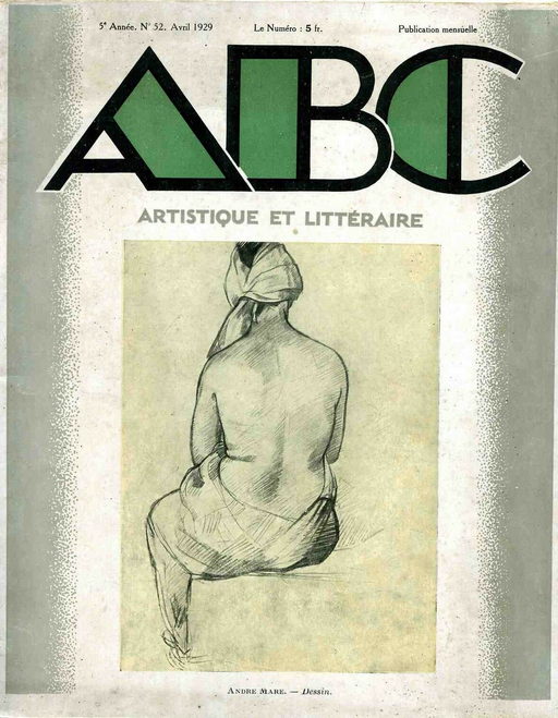 ABC Artistique et Littéraire, cover of a magazine, printed in Paris.